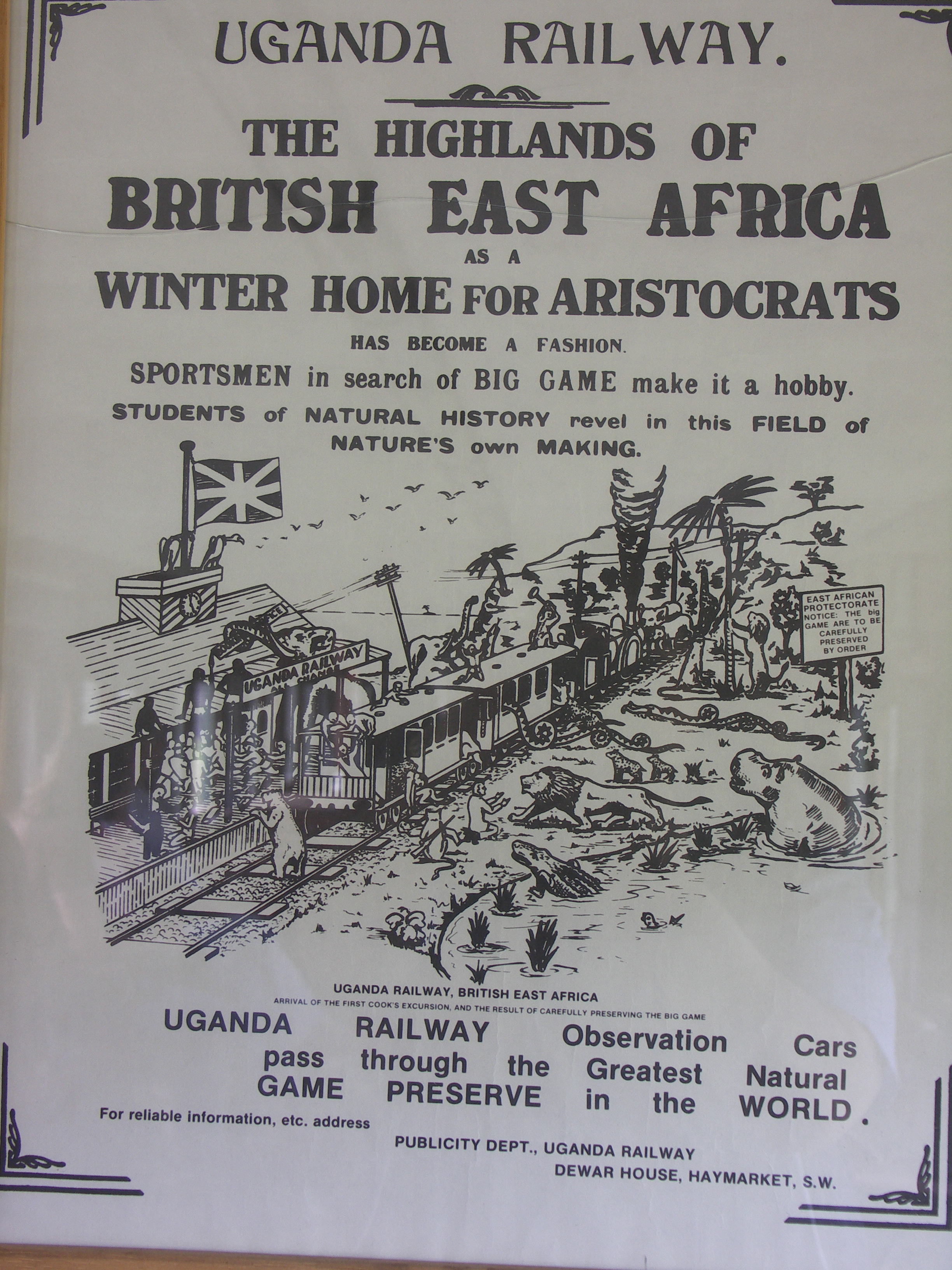 Replica Uganda Railway poster on tha Twshane Express historic steam train operated by Friends of the Rail in Pretoria, South Africa